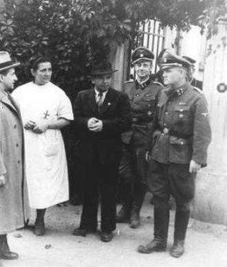 Warsaw Uprising. Visit of the International Red Cross delegation in German Transit Camp in Pruszków (Dulag 121). In the middle dr Paul Vyss (chief of the delegation). On the right SS-Sturmbannfuhrer Gustaw Diehl - the "real" commandant of the Durchgangslager 121.